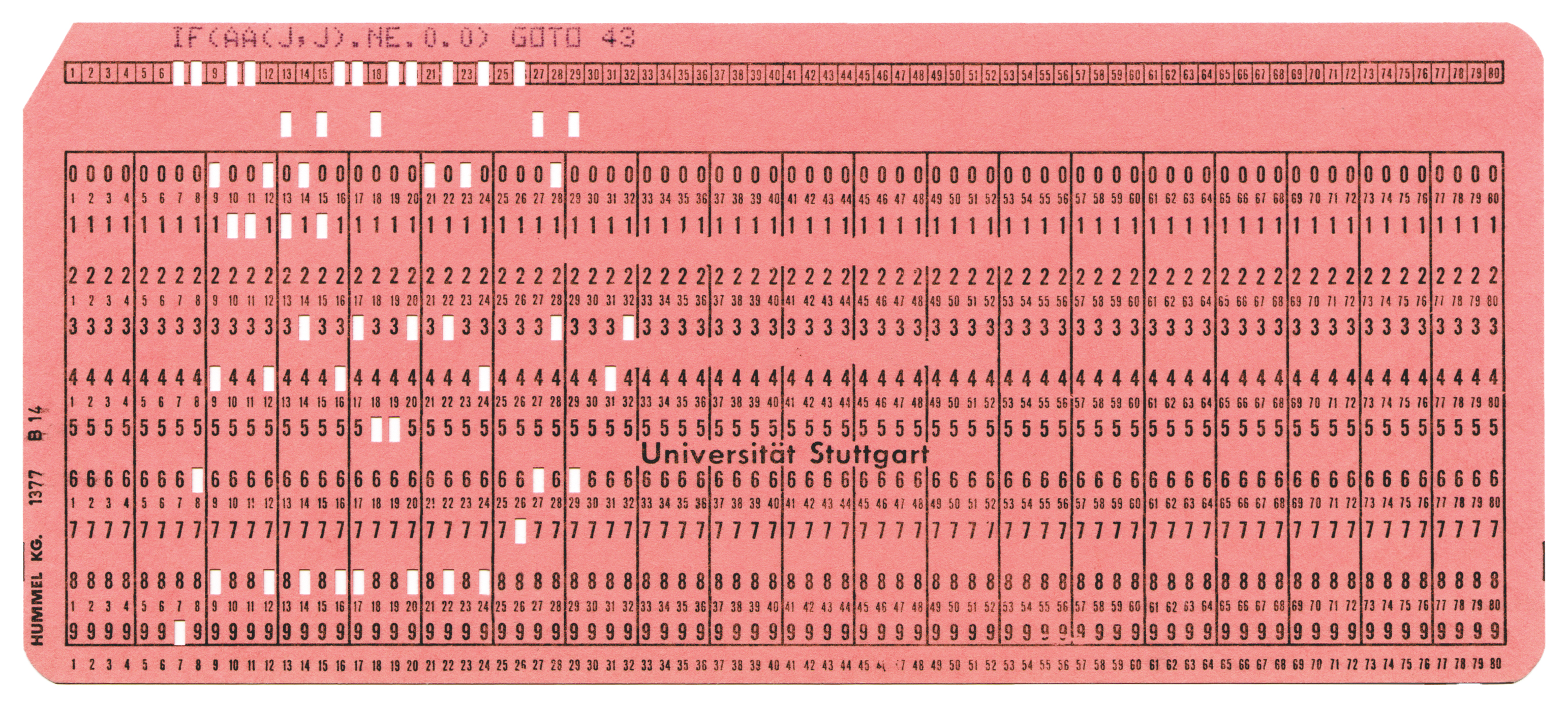 Punched card in the 80-column-format according to the IBM standard. The card was used at the beginning of the 1970s at the University of Stuttgart (Germany) for the input of Fortran programms in the IBM mainframe. The plain text of the coded line is on the top left.